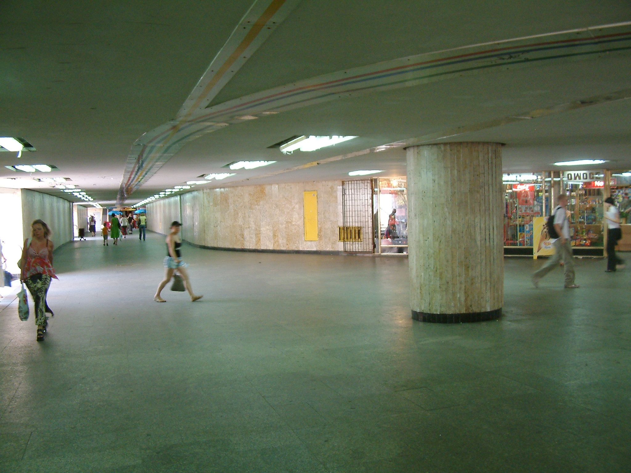 Underground of Kaponiera Roundabout in Poznań